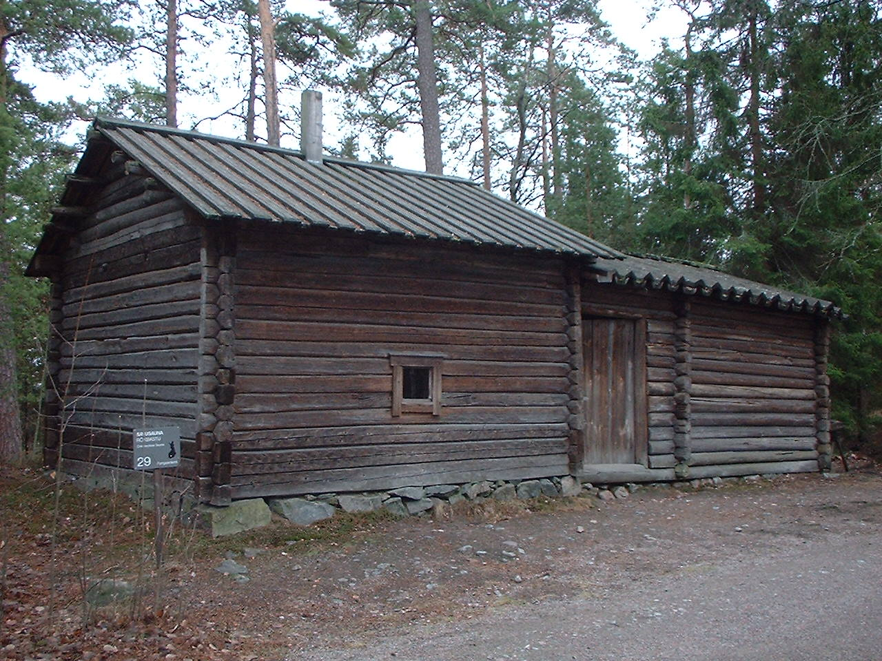 A chimneyless sauna in Seurasaari.